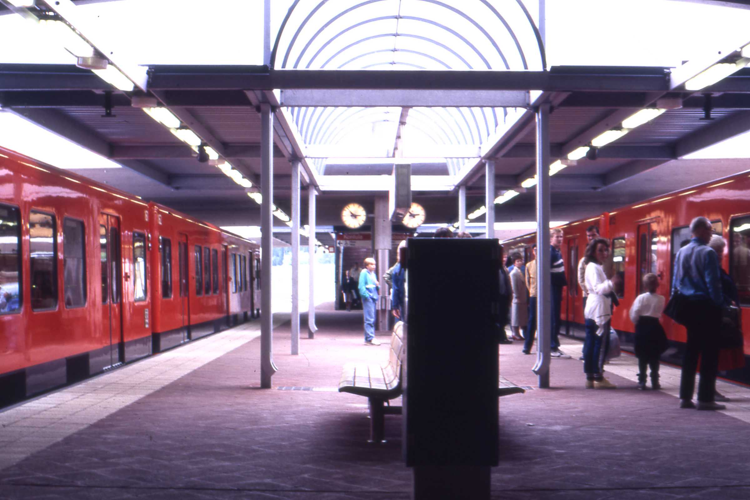 Kontula metro station in 1987